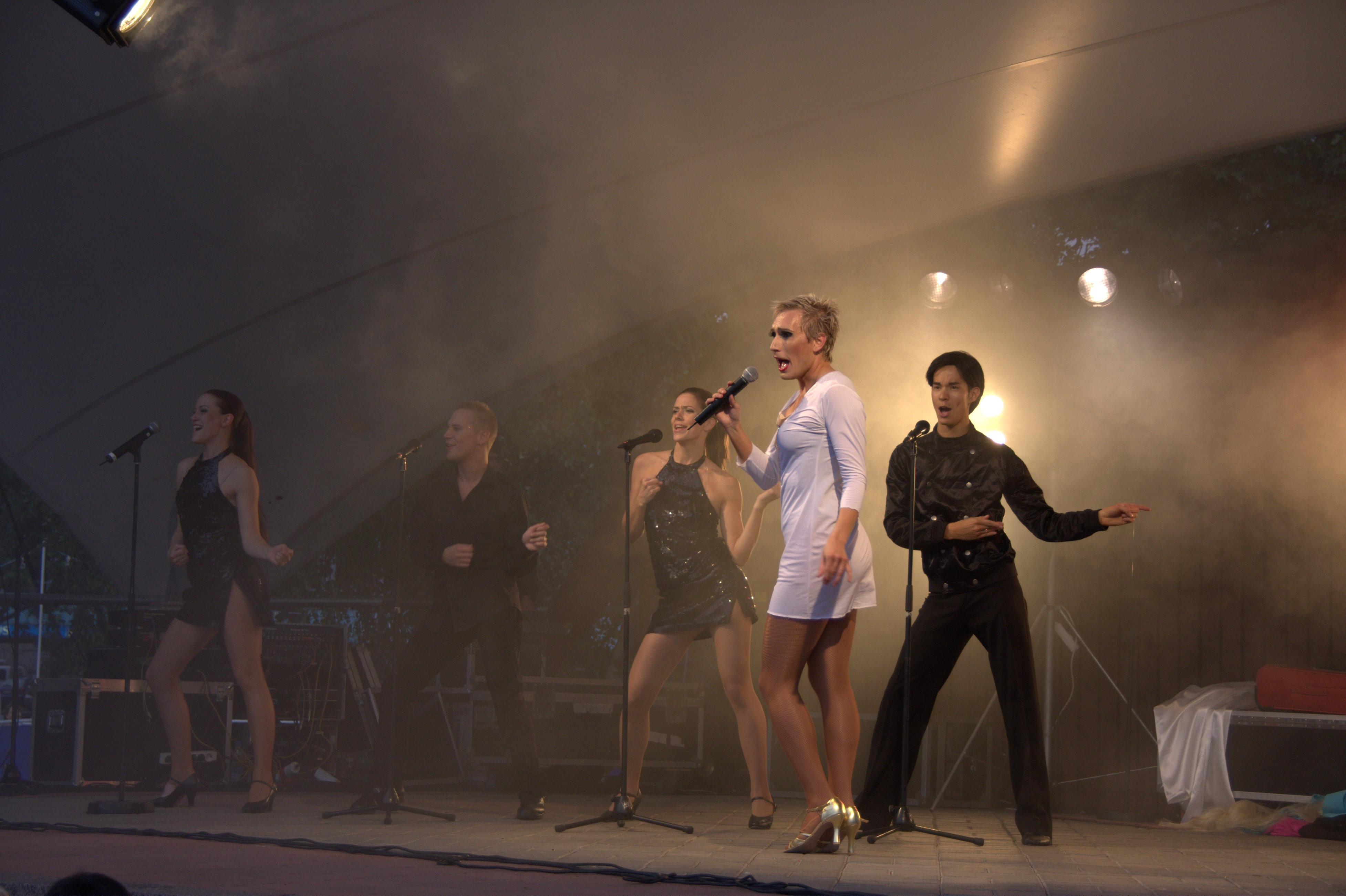 Finland 12 poits drag show group